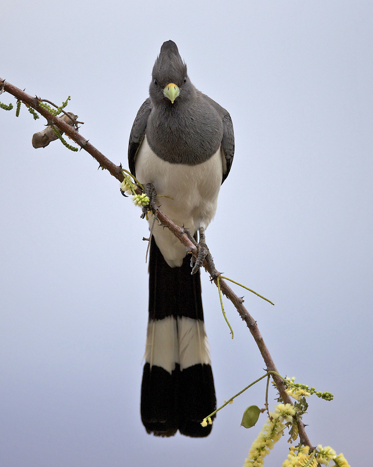 A female White-bellied Go-away-bird in Kambi ya Tembo, Tanzania.